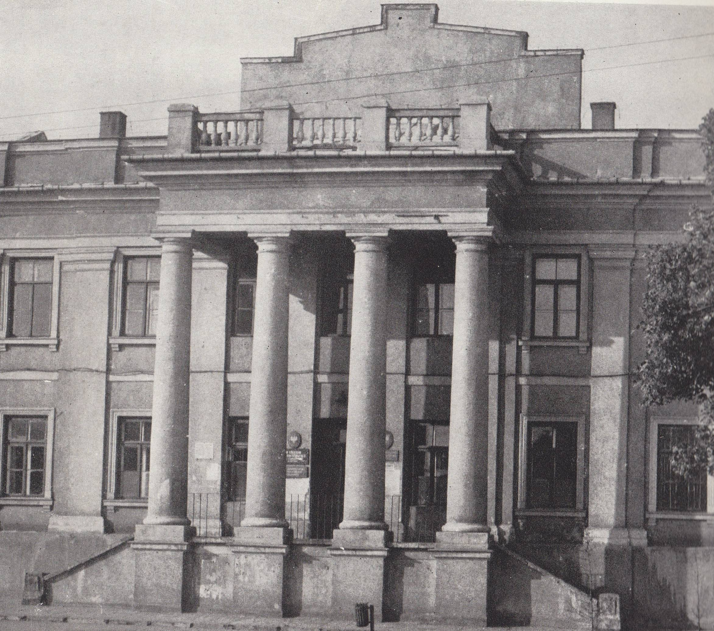 Former seat of Piarist College. Now Jacek Malczewski Museum.